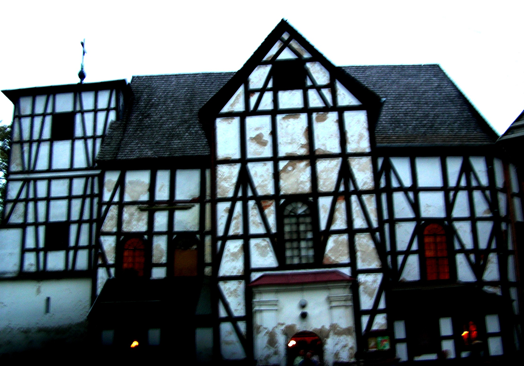 Church in Wierzbica Górna